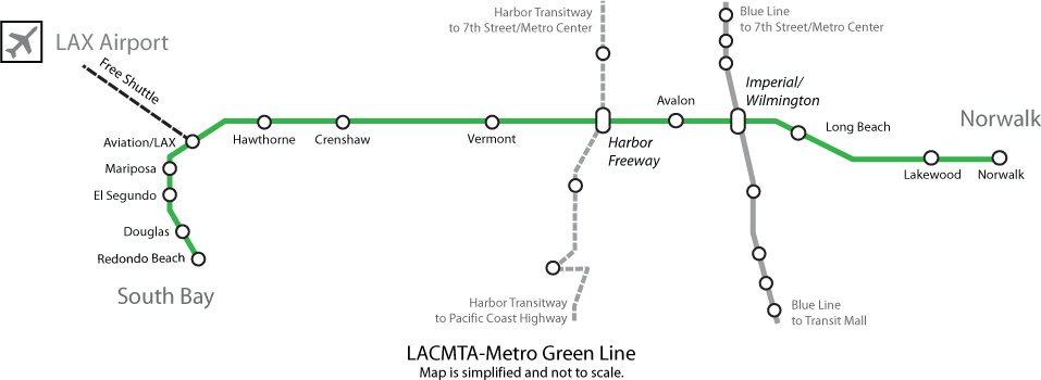 Map of the Green Line in Los Angeles. Created 2007, by Ricky Courtney, please credit.